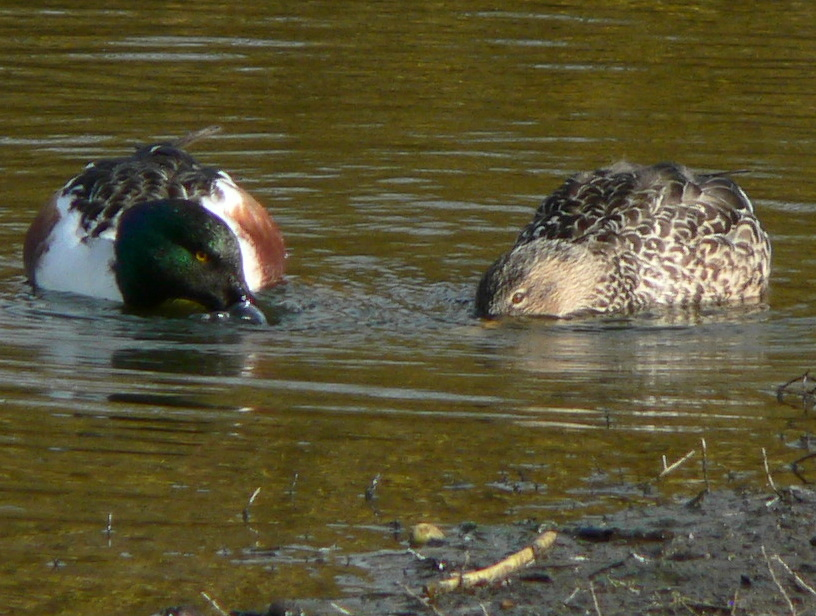 Northern Shoveler